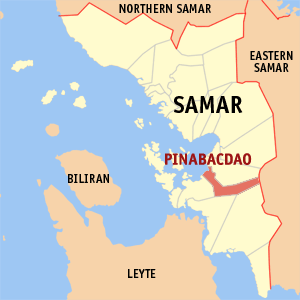 Map of Samar showing the location of Pinabacdao